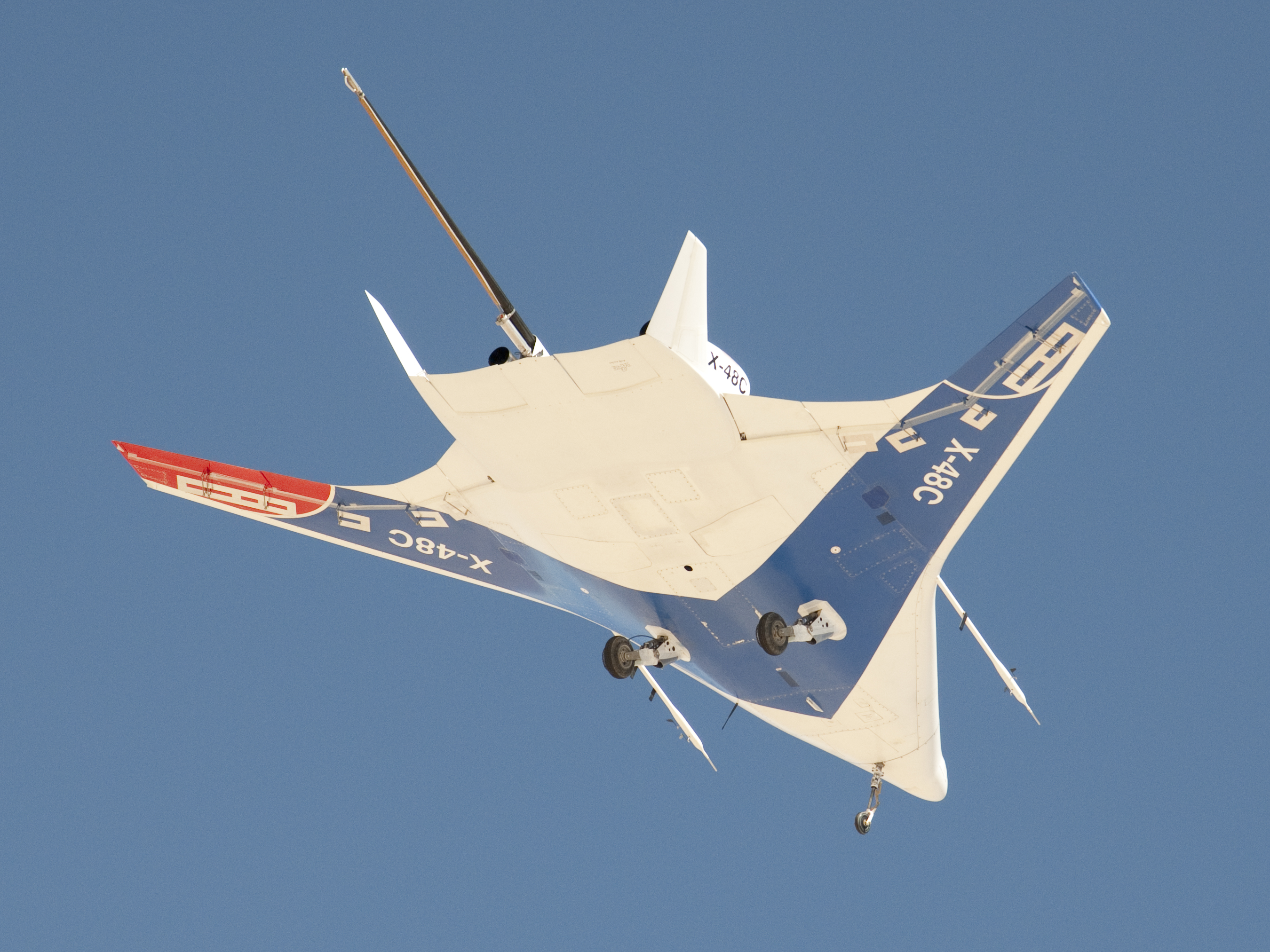 The manta ray-like shape of the X-48C Hybrid Wing Body aircraft is obvious in this underside view as it flies over Edwards Air Force Base on a test flight on Feb. 28, 2013.